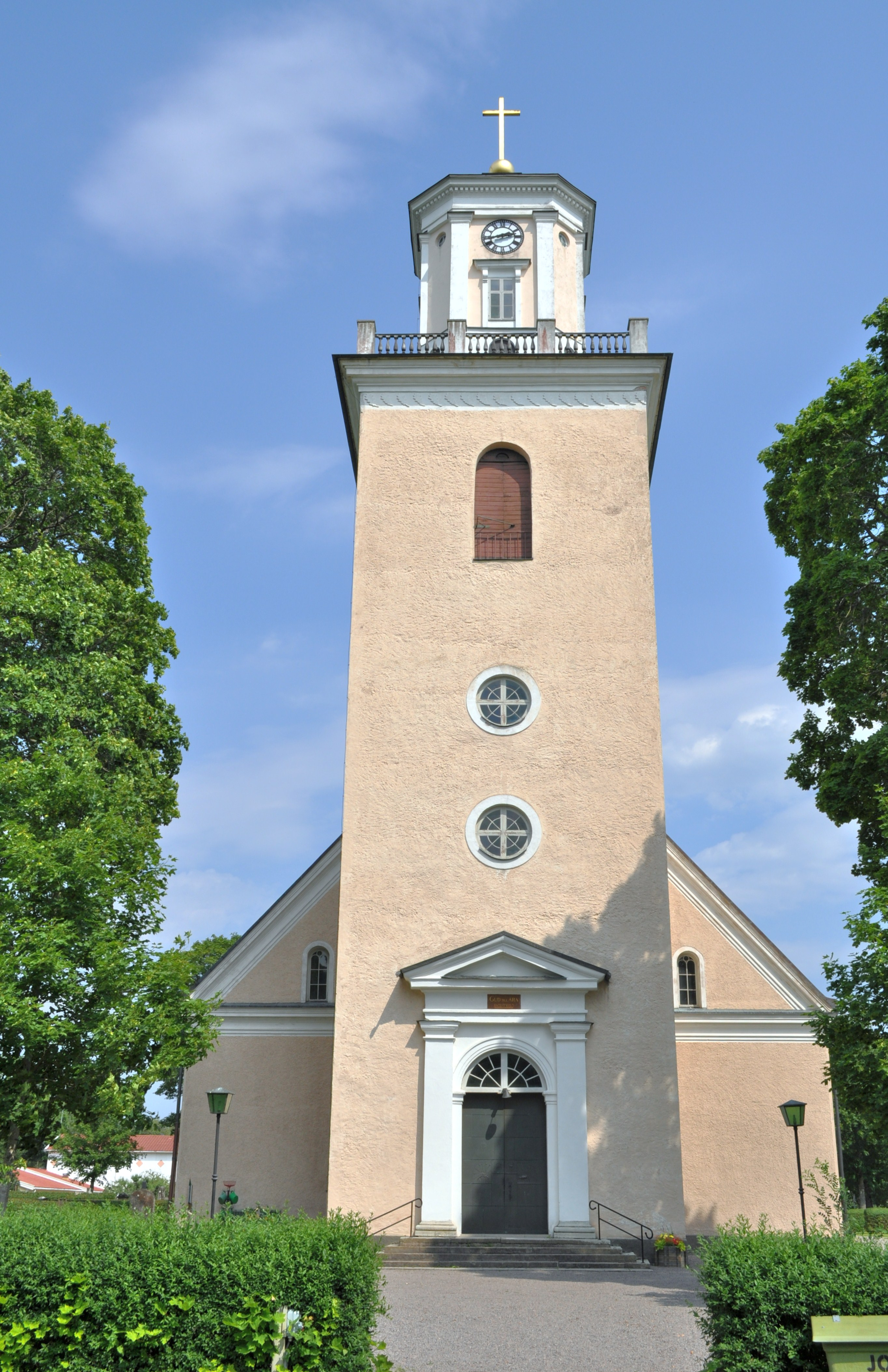 Madesjö church in Nybro - Sweden